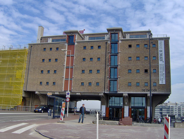 Pakhuis de Zwijger